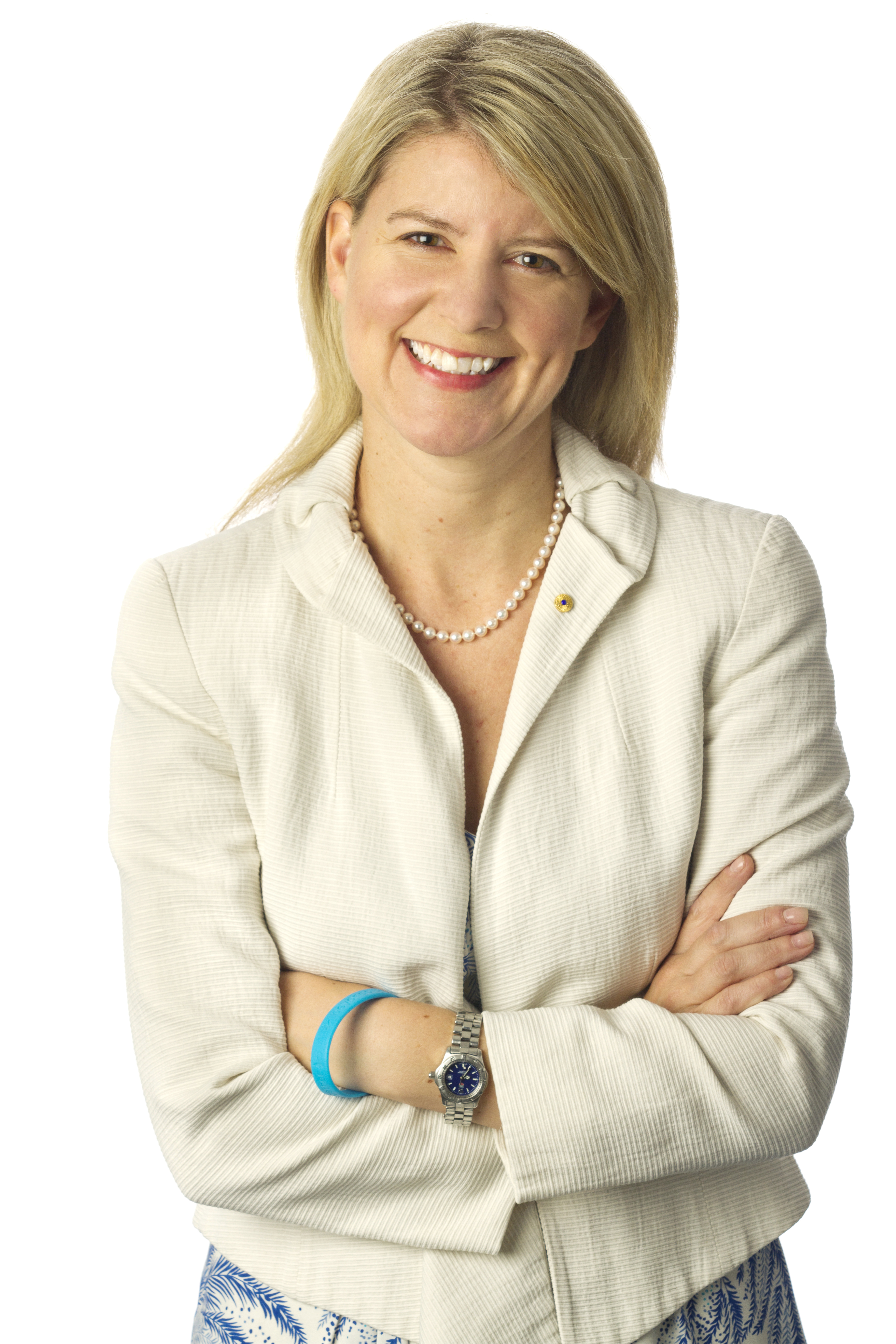 Natasha Stott Despoja